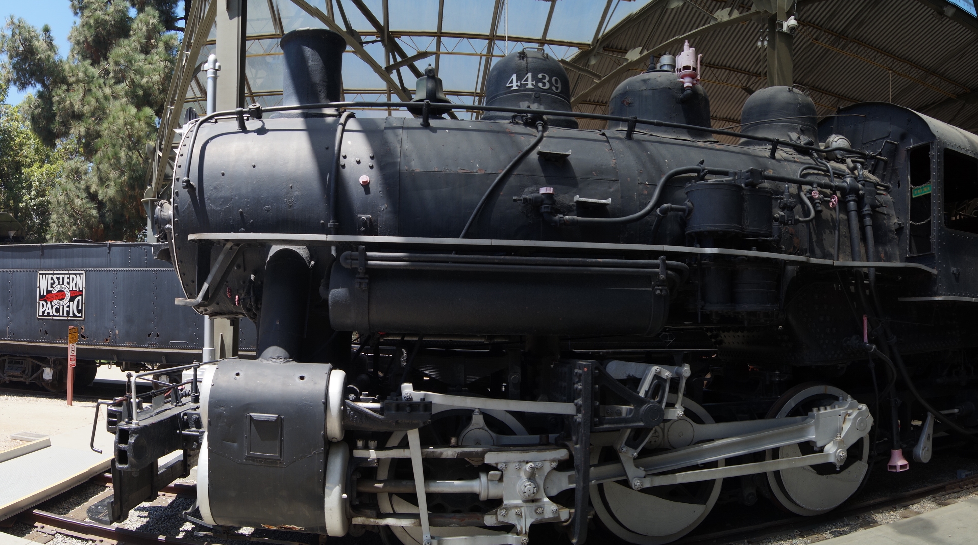 Travel Town Museum is a transport museum dedicated in the northwest corner of Los Angeles, California's Griffith Park. The history of railroad transportation in the western United States from 1880 to the 1930s is the primary focus of the museum's collection, with an emphasis on railroading in Southern California and the Los Angeles area.